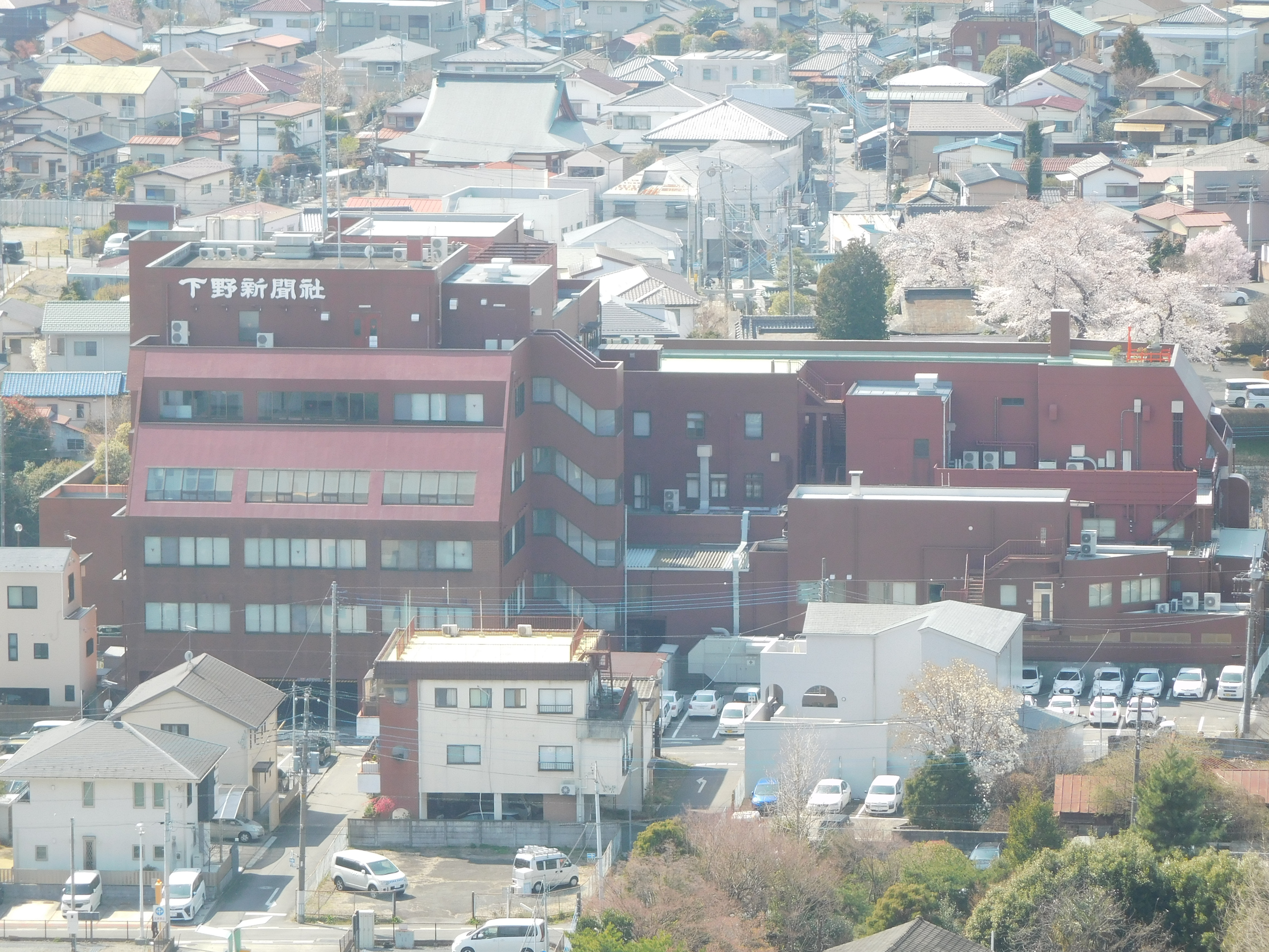 This is the head office of Shimotsuke Shimbun in Utsunomiya, Tochigi, Japan. It was taken from the 15 floor of Tochigi prefectural government office building.